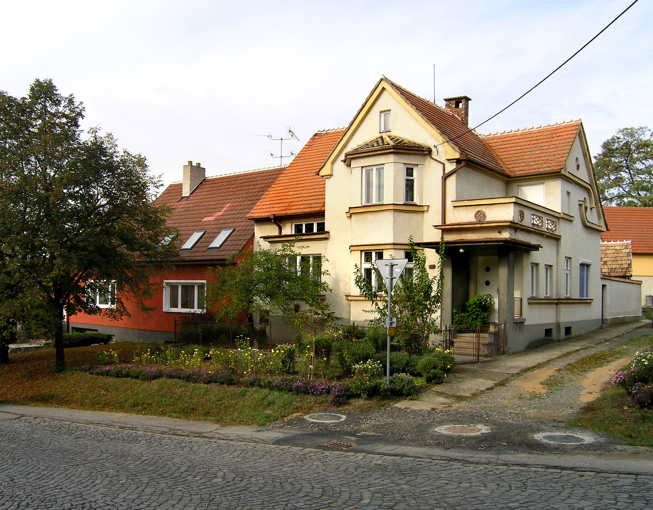 Middle part of Kobylí village, Czech Republic